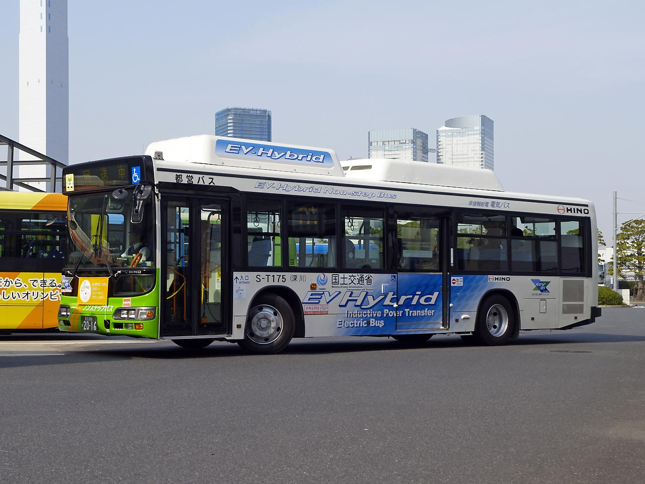 Fleet of Toei Bus, for demonstration of IPT hybrid system, operating since April 13 to 27, 2009. Model: Hino Blue Ribbon City Hybrid HU8JMFP License plate: TKA200 KA2016 Place: Harumi, Chuo ward, Tokyo Japan